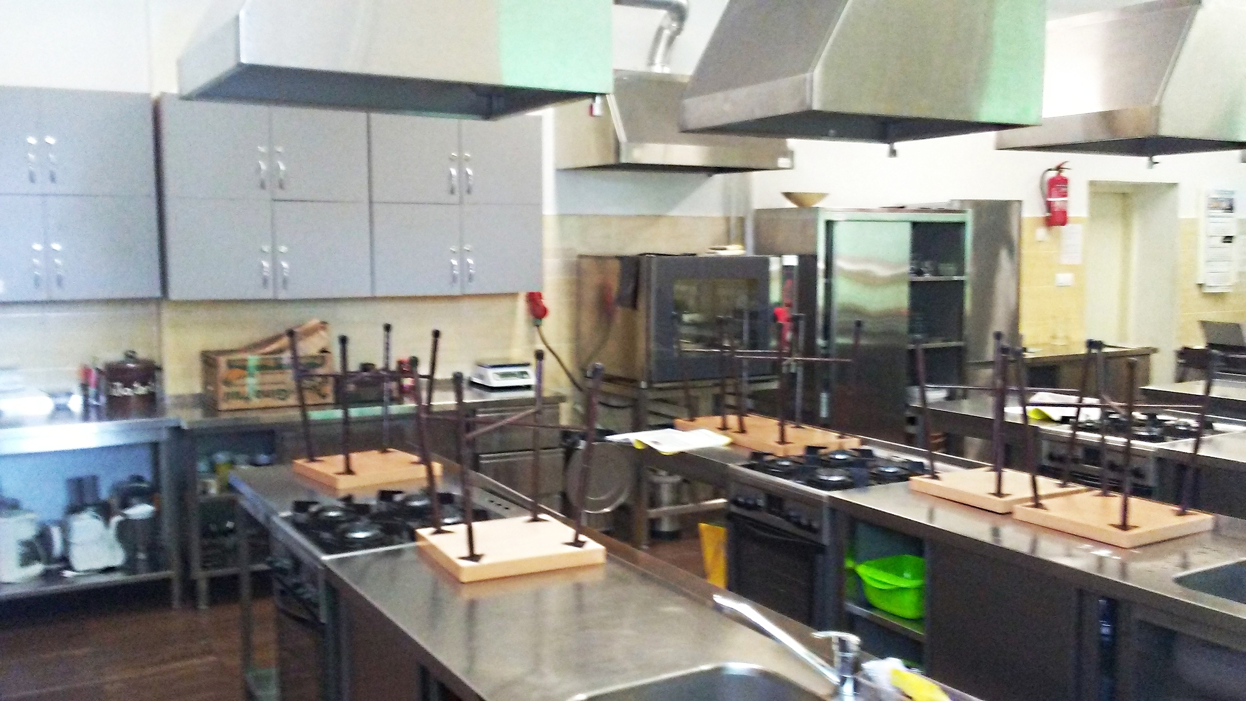 ZSP2 – cooking school in Tomaszów Mazowiecki, one of class room